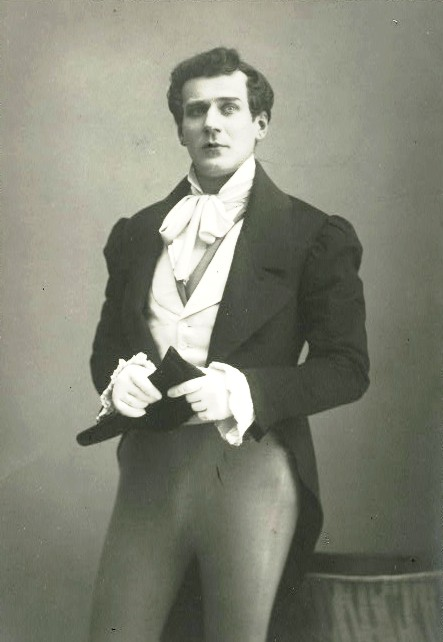 Mikhail Lenin as Chatsky in «Sorrows of the Spirit» by Alexander Sergeyevich Griboyedov.